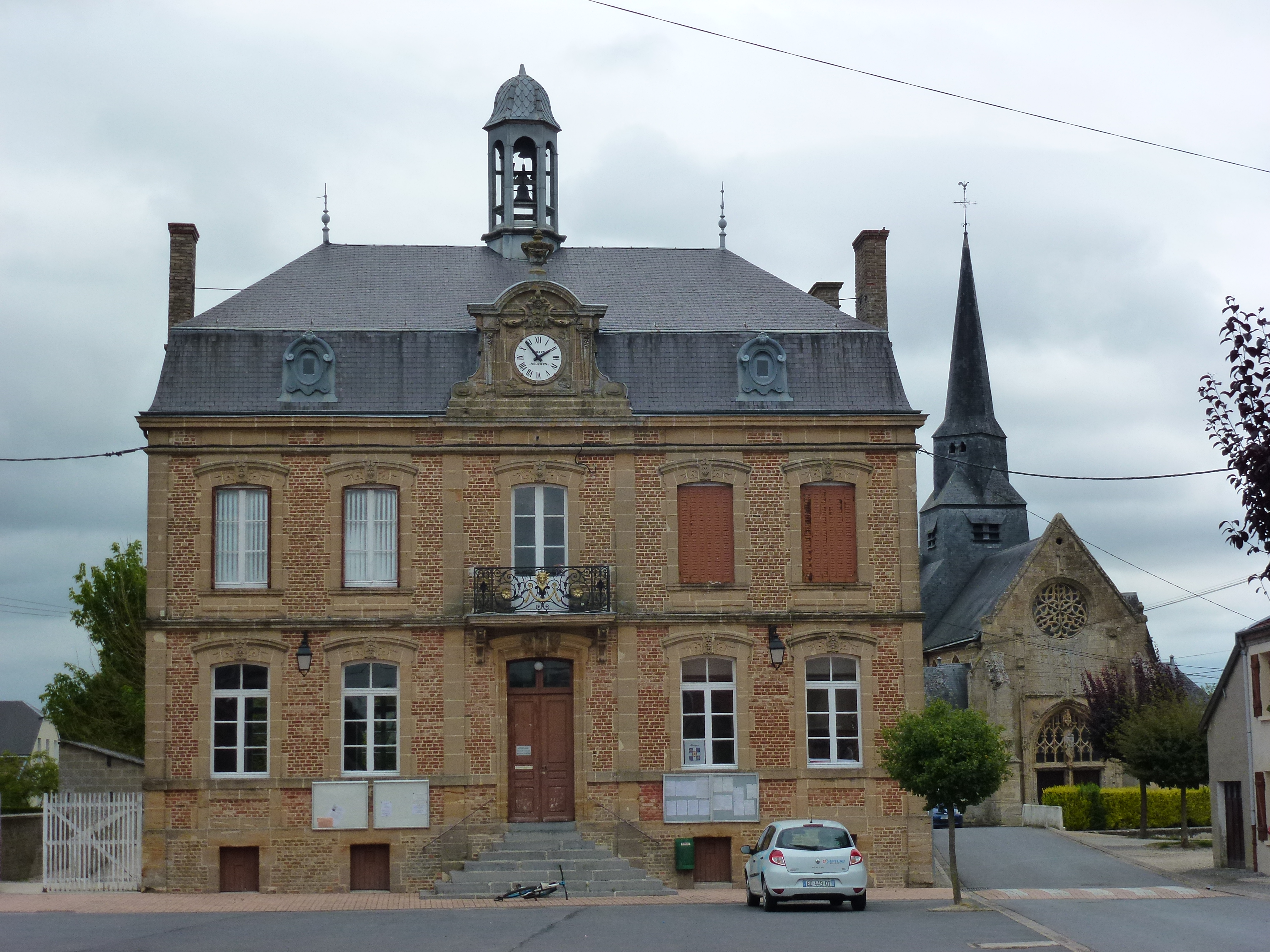 Amagne (Ardennes) mairie